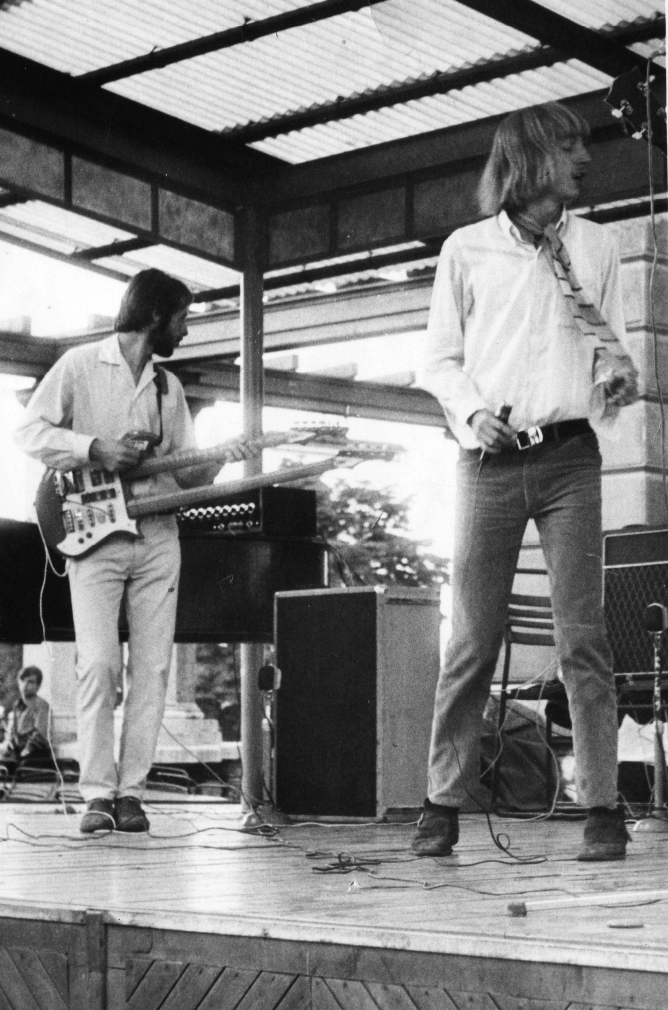 Kex group from Hungarian (Iván Bianki and János Baksa Soós) Location: Hungary, Budapest I. Tags: band, musician, musical instrument, guitar, beat era, Budapest Title: Várkert Bazár, Budai Ifjúsági Park. A Kex együttes tagjai: Bianki Iván, Baksa Sós János.